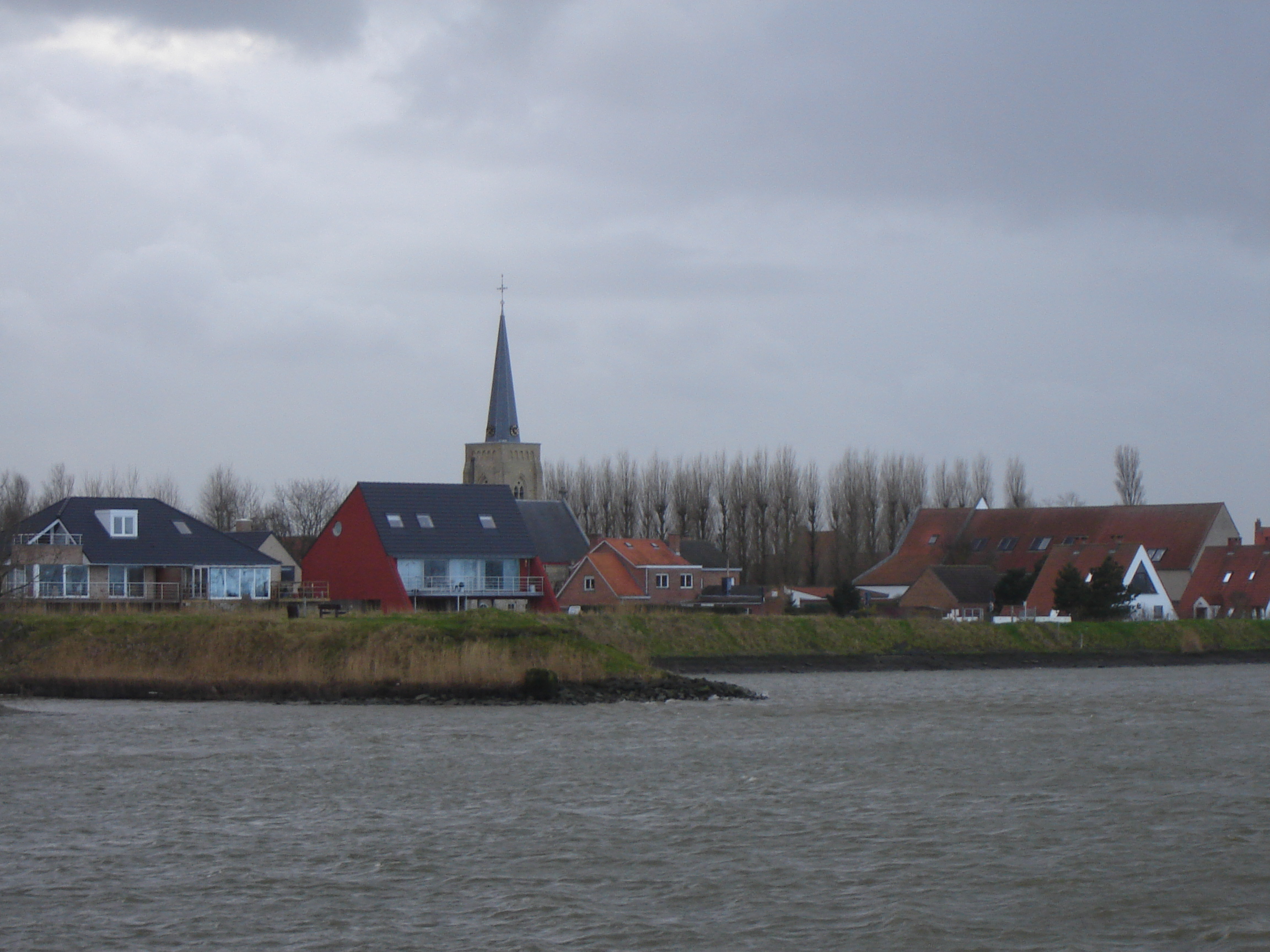 Village of Sint-Joris in Nieuwpoort, West Flanders, Belgium. As seen from across the reservoir on the Yser river.